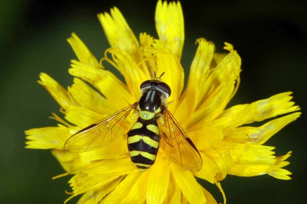 Dasysyrphus albostriatus, Valle Maggia, Ticina, Switzerland